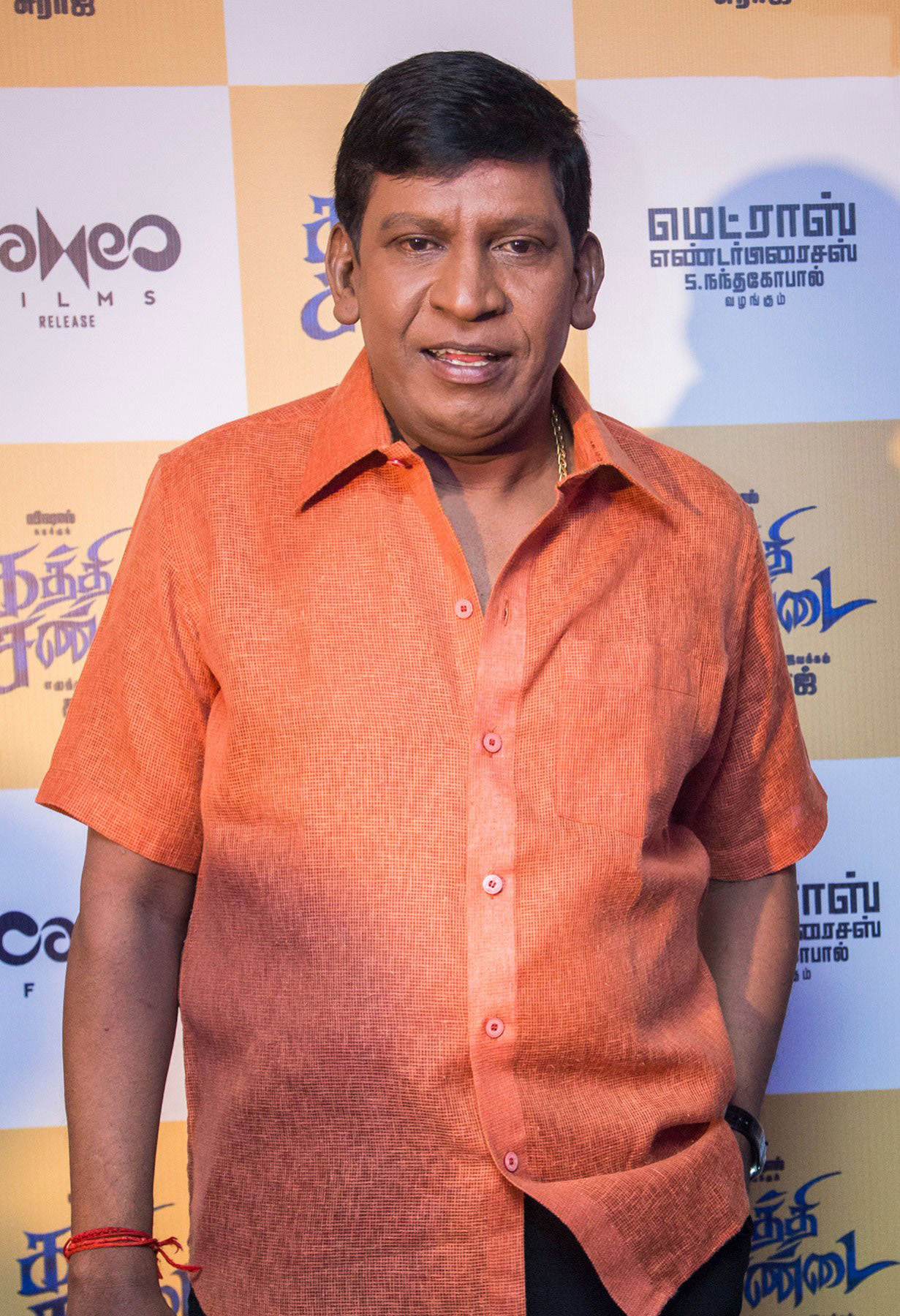 Vadivelu at Trailer & HD Songs Launch of Kaththi Sandai